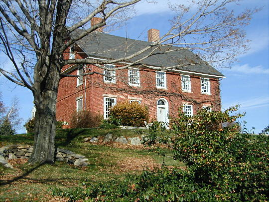 John Adams, Jr. House, c. 1798. Also known as Handley Farm (1820-1957), Windswept (1957-present).